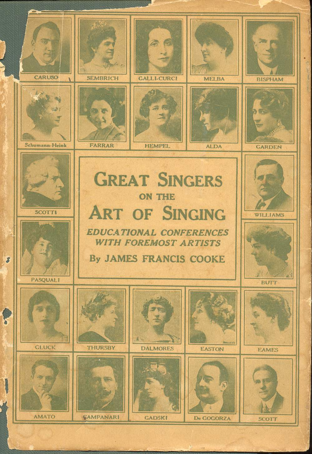 This is the dust jacket for the book Great Singers on the Art of Singing, by James Francis Cooke. It is a public domain image, taken from a Project Gutenberg book.